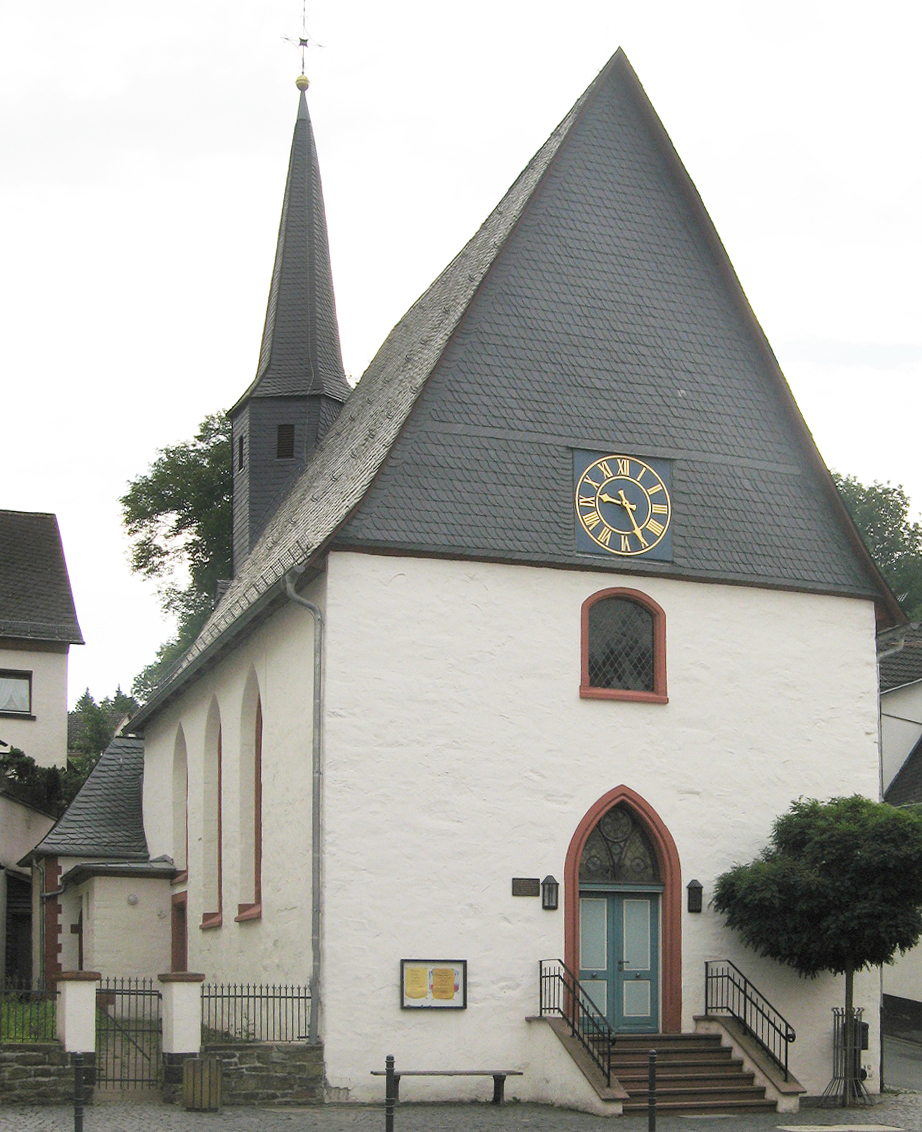 The Hospitalkirche of Biedenkopf